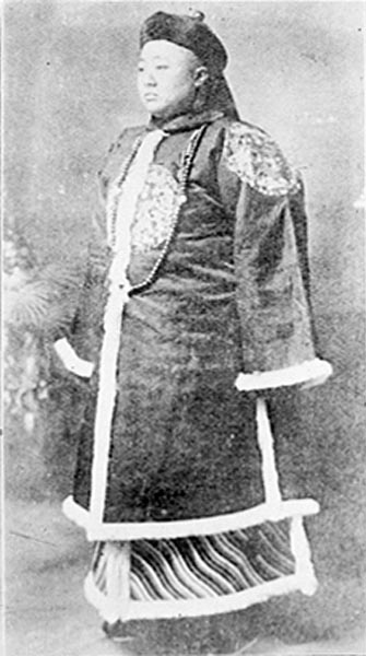 Prince Zaixun of China in court robe